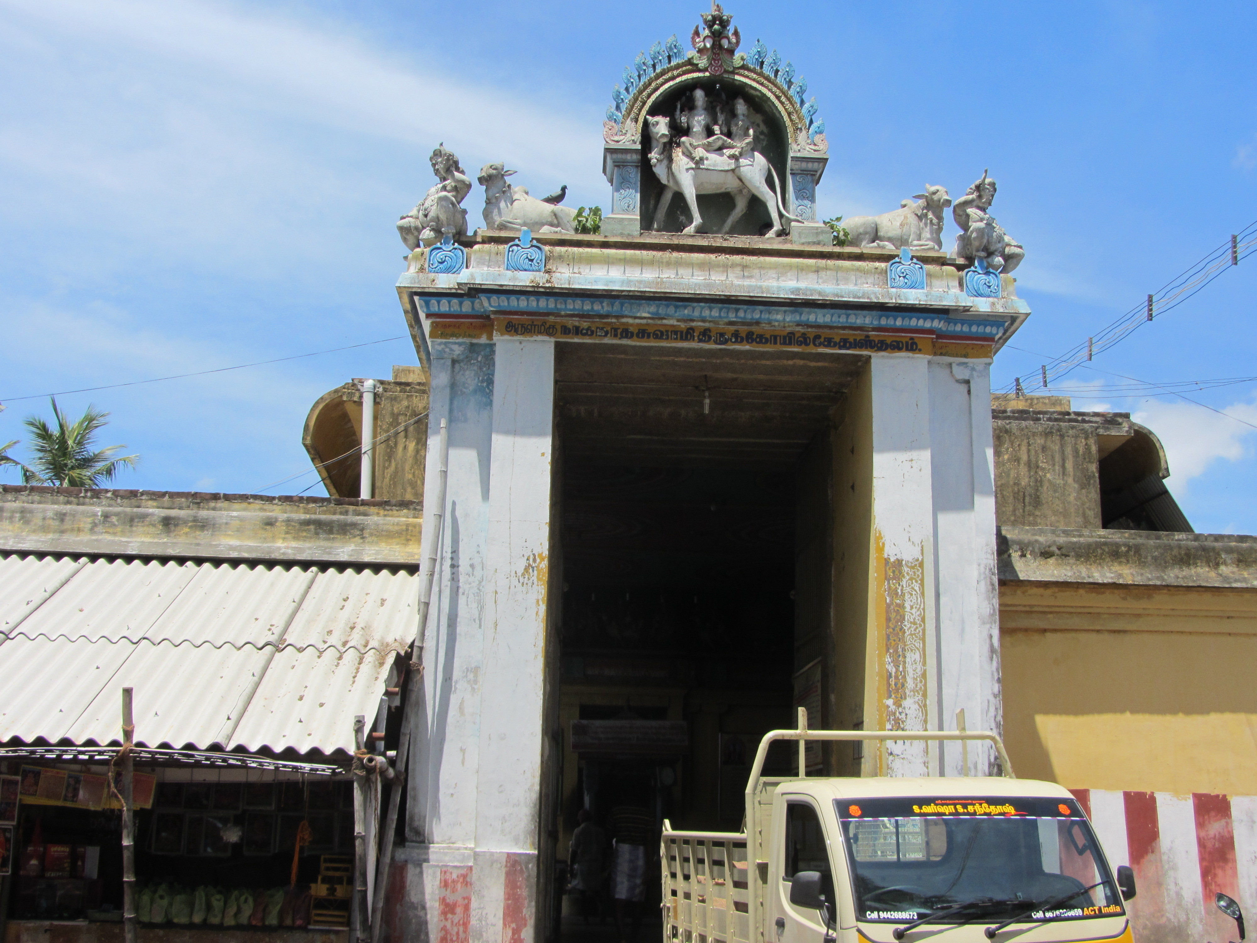 Kizhaperumpallam Kethu temple in Nagapattinam District of Tamilnadu